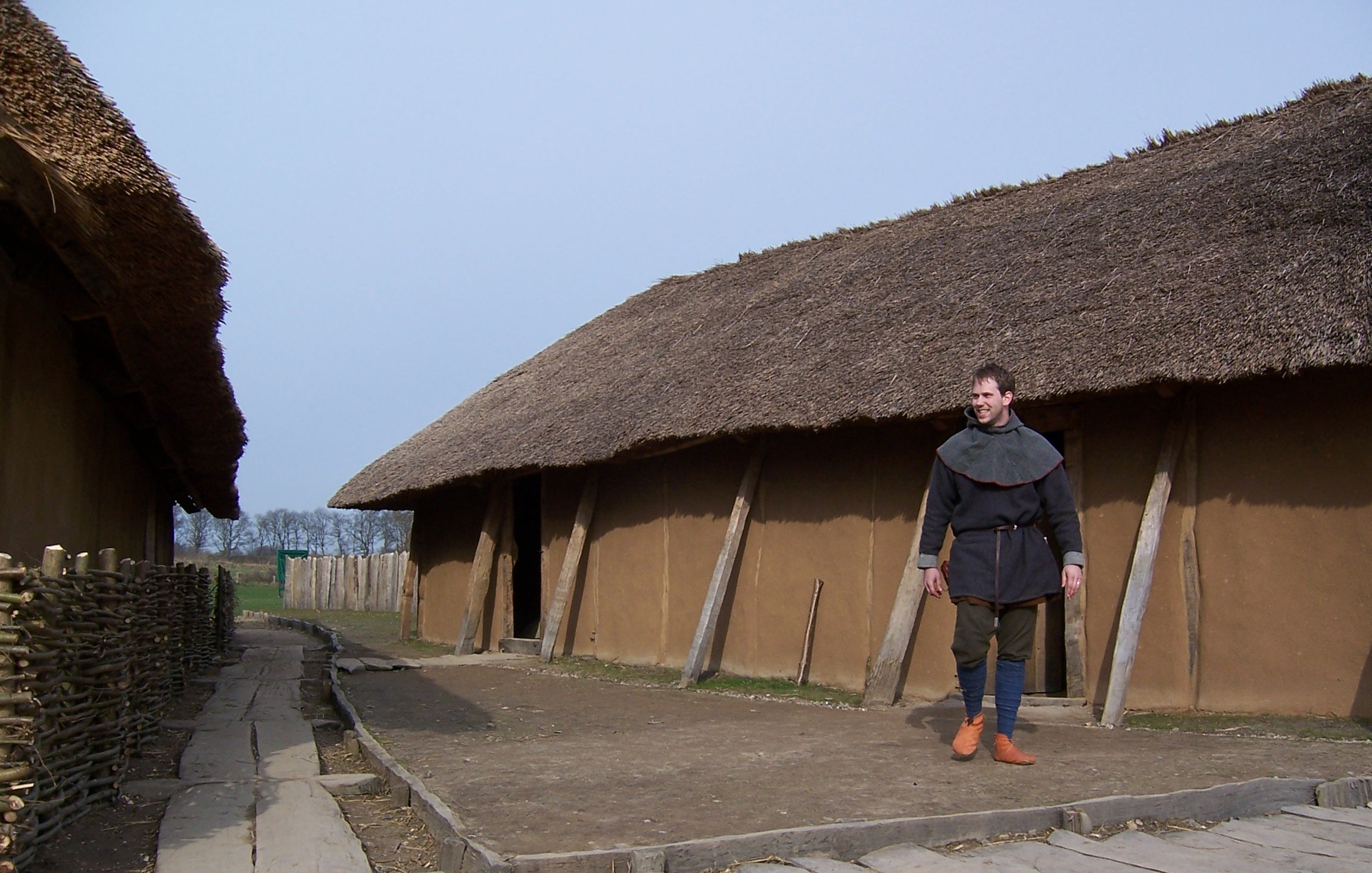 Author: Caravaca. Date: April 2006. Description: Reconstructed Viking houses at Hedeby (Haithabu) in Northern Germany.